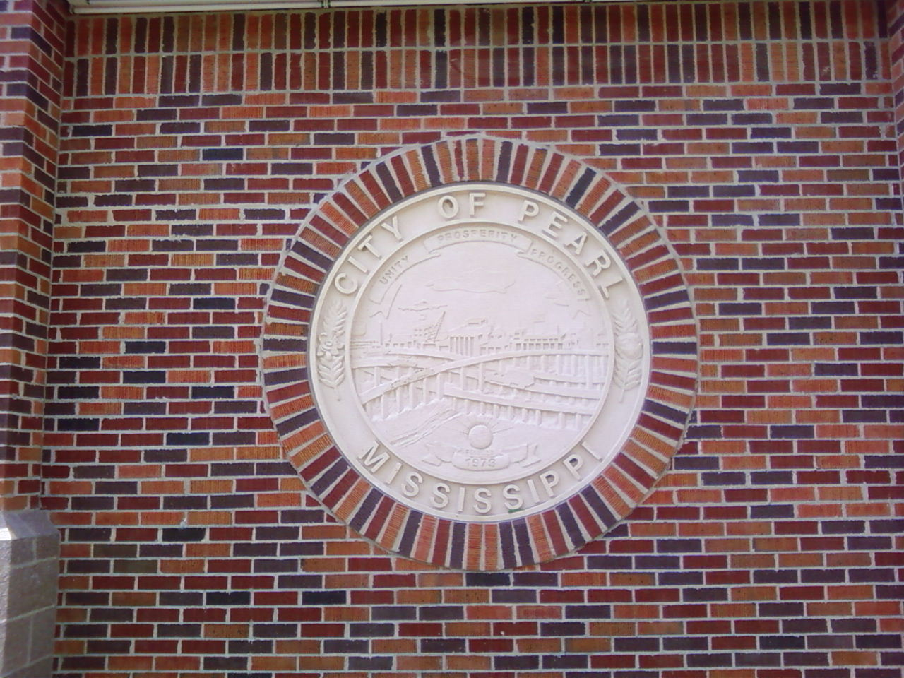 Pearl, Mississippi Community Center wall with the city seal.